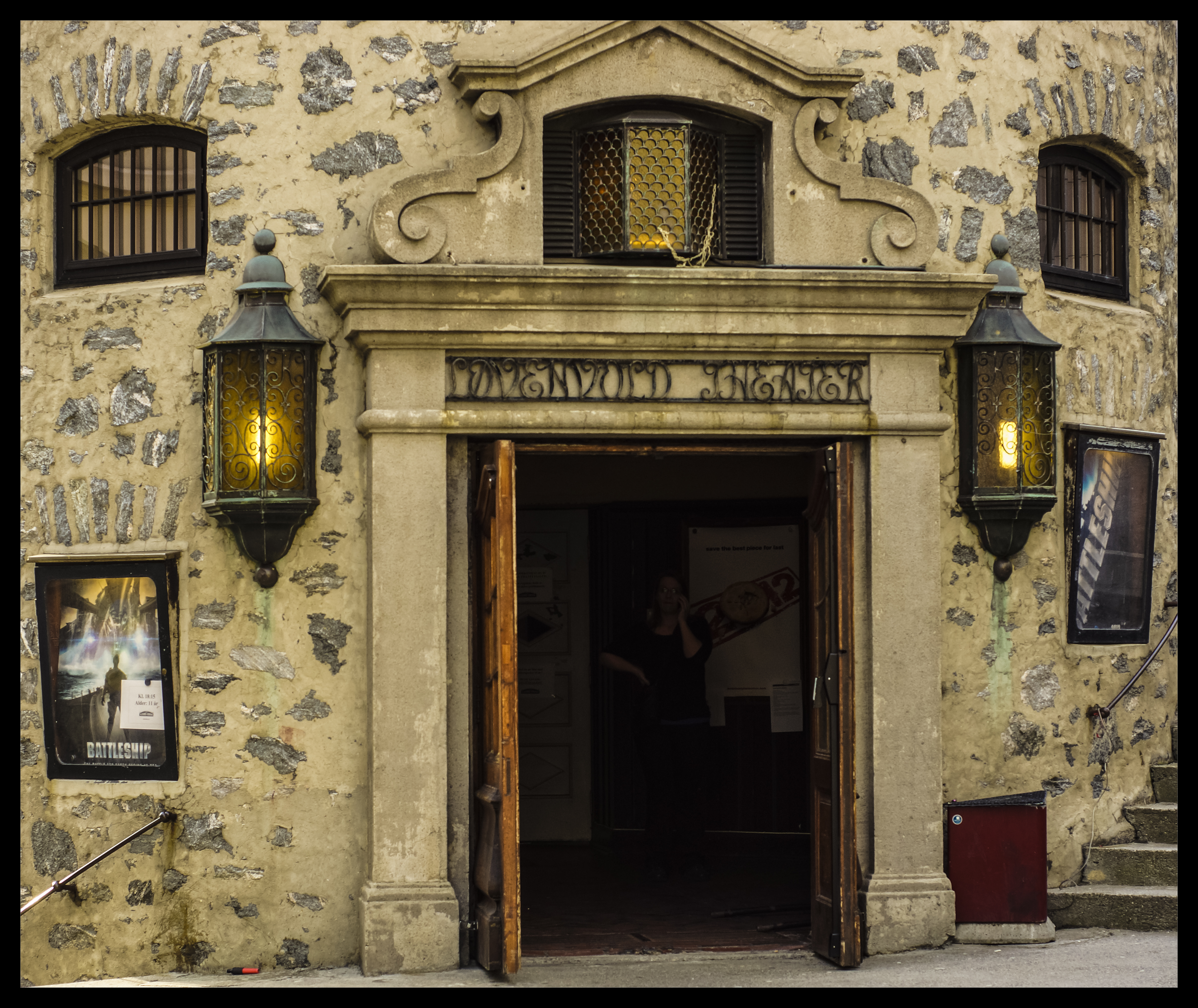 Løvenvold cinema in Ålesund, Norway. Architect Øyvind Grimnes